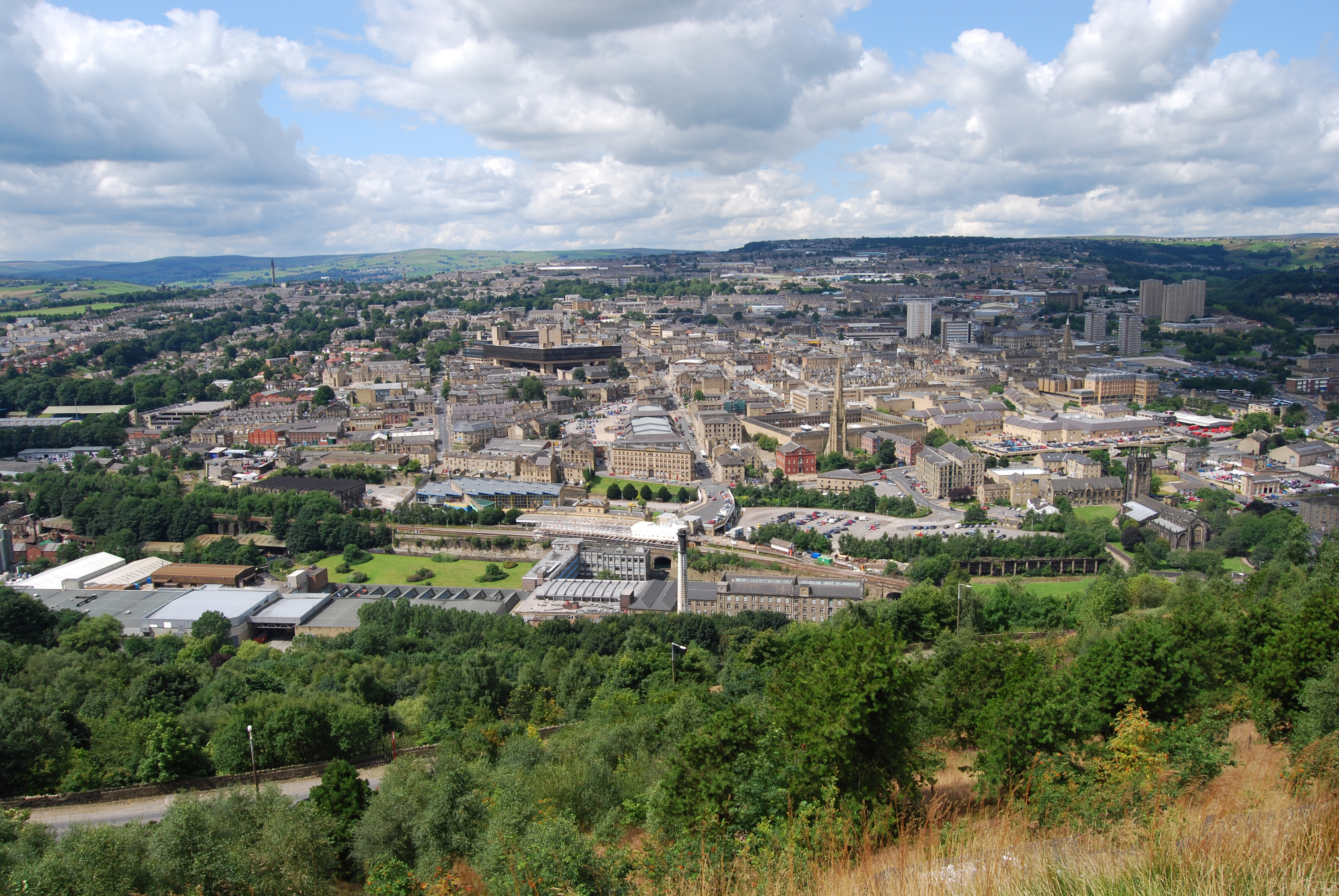 View of Halifax, West Yorkshire. Looking westwards from the summit of Beacon Hill.